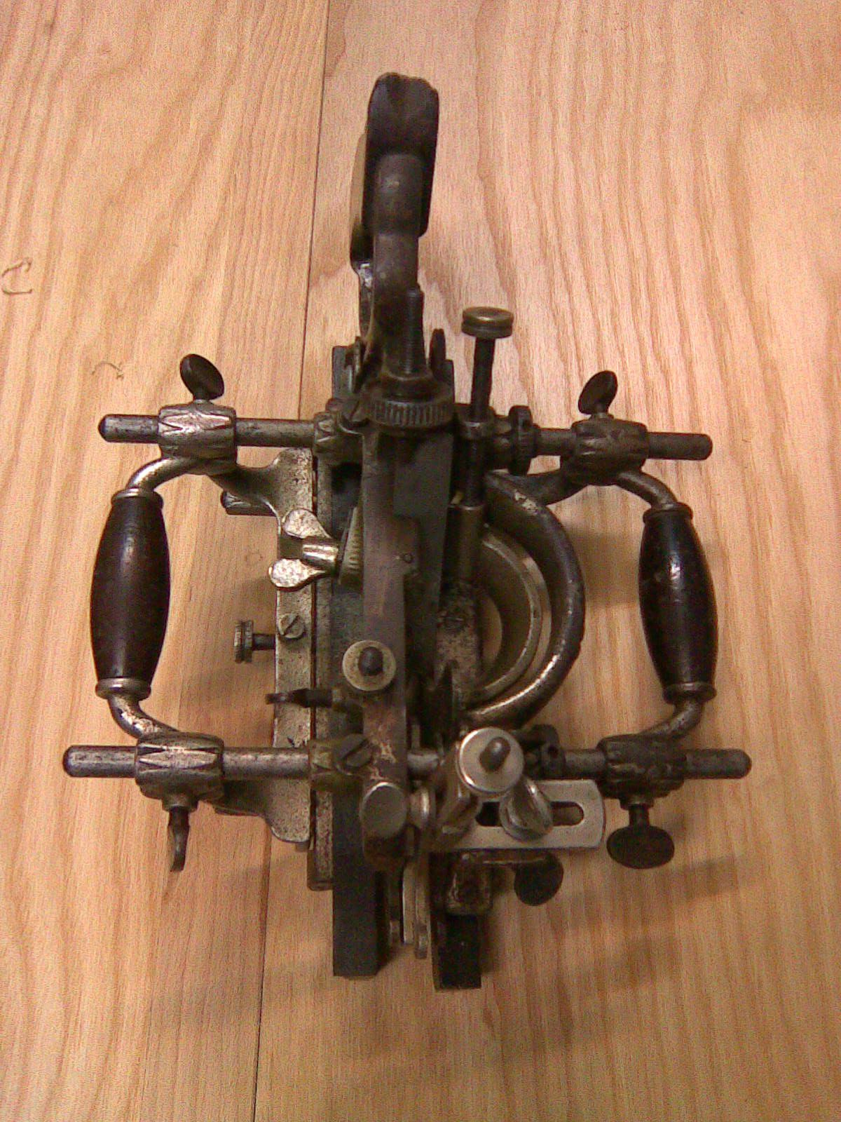 Stanley plane No. 55